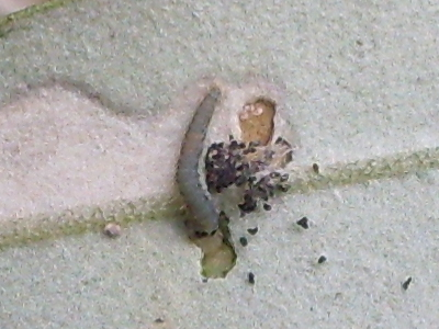 A larva of Prays oleae (Lepidoptera: Yponomeutidae, probably instar IV, leaving a leaf mine, eats from the surface a leaf of olive tree (Place: Villacidro, Sardinia, Italy)